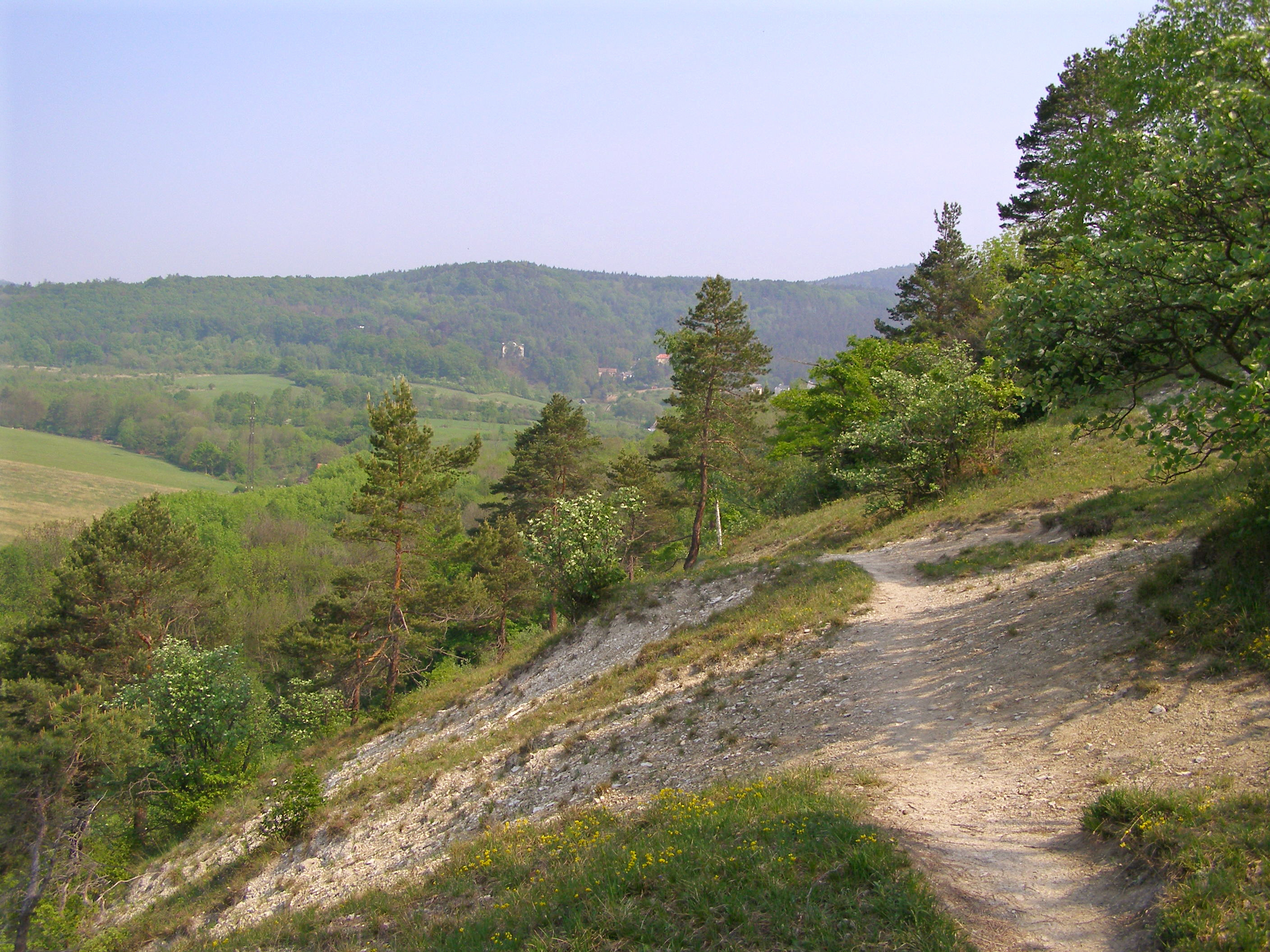 White Steep